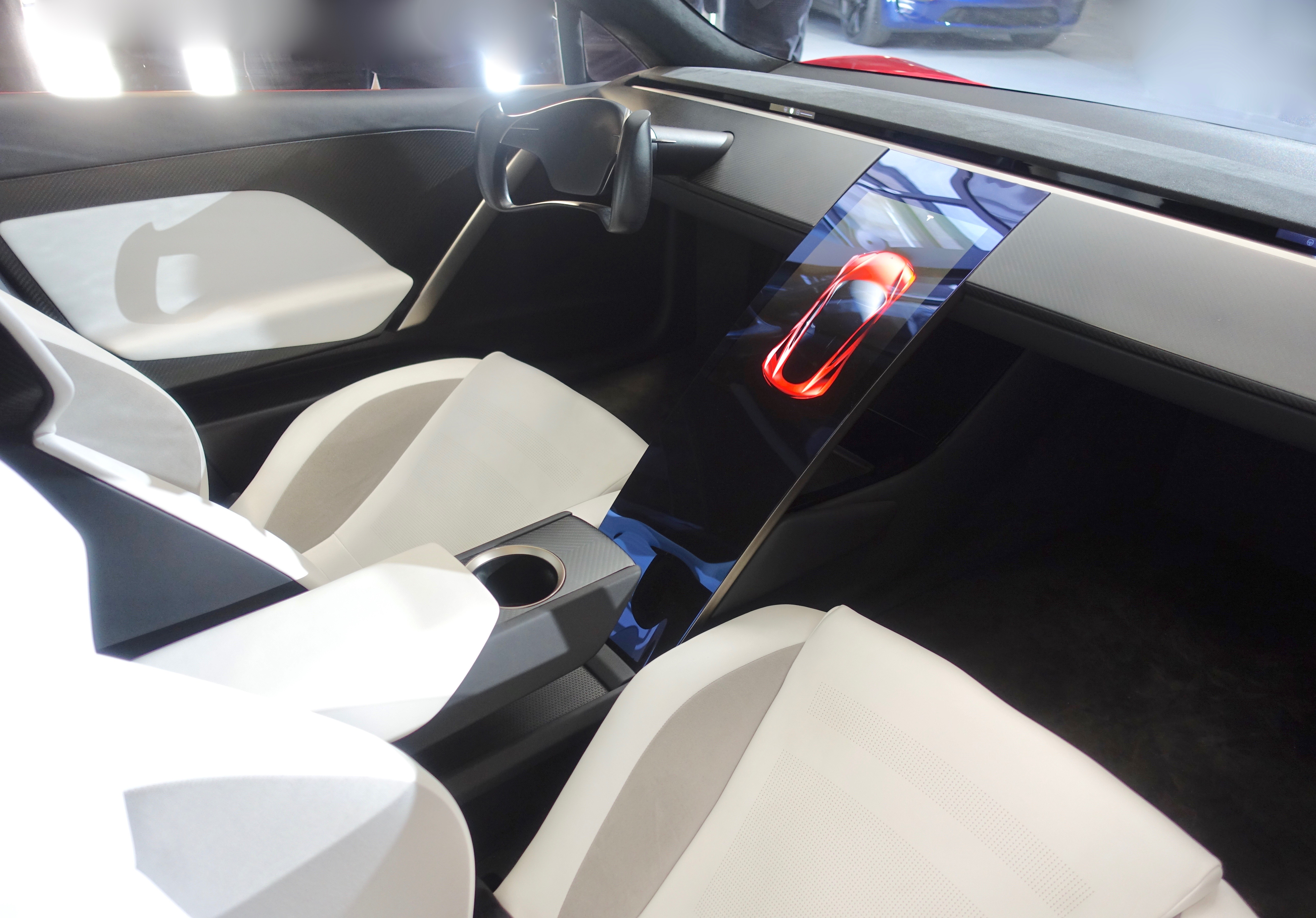 Photo of new Tesla Roadster's interior